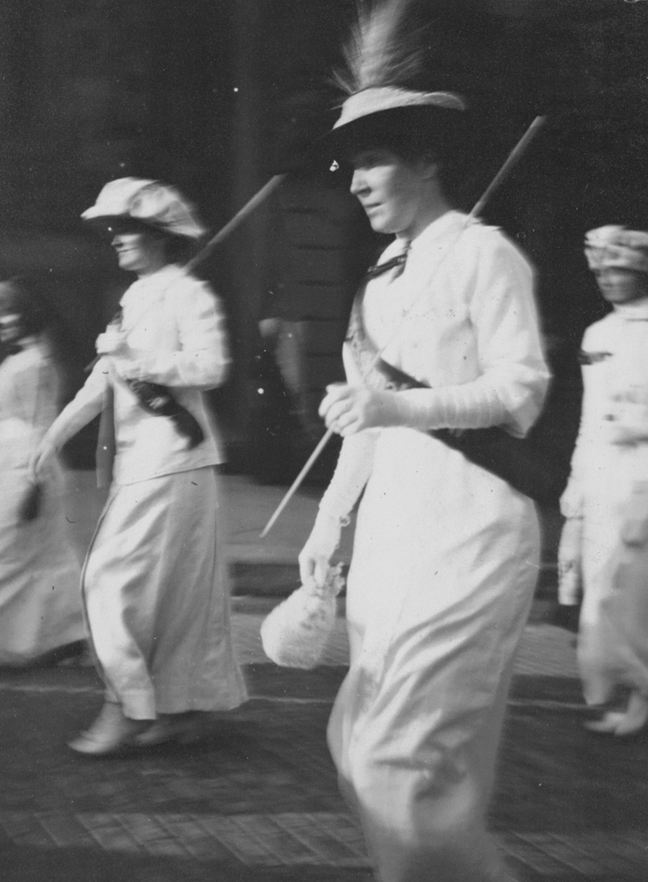 Summary: Photograph of Matilda Gardner and three other unidentified women in background marching in suffrage procession, holding a baton, wearing feathered hat, long white dress, and sash with lettering across chest. Matilda Hall Gardner, of Washington, D.C., formerly of Chicago, was the daughter of Frederick Hall, editor of the Chicago Tribune, and wife of Gilson Gardner, Washington representative of Scripps newspapers. Educated in Chicago, Paris, and Brussels, Gardner was one of the original core of activists who worked with Alice Paul and Lucy Burns when they first came to Washington to work for the Congressional Committee. She was a member of the national executive committee of the NWP beginning in 1914. She was arrested July 14, 1917, and sentenced to 60 days in Occoquan Workhouse; and Jan. 13, 1919, and sentenced to 5 days in District Jail. Source: Doris Stevens, Jailed for Freedom (New York: Boni and Liveright, 1920), 359.